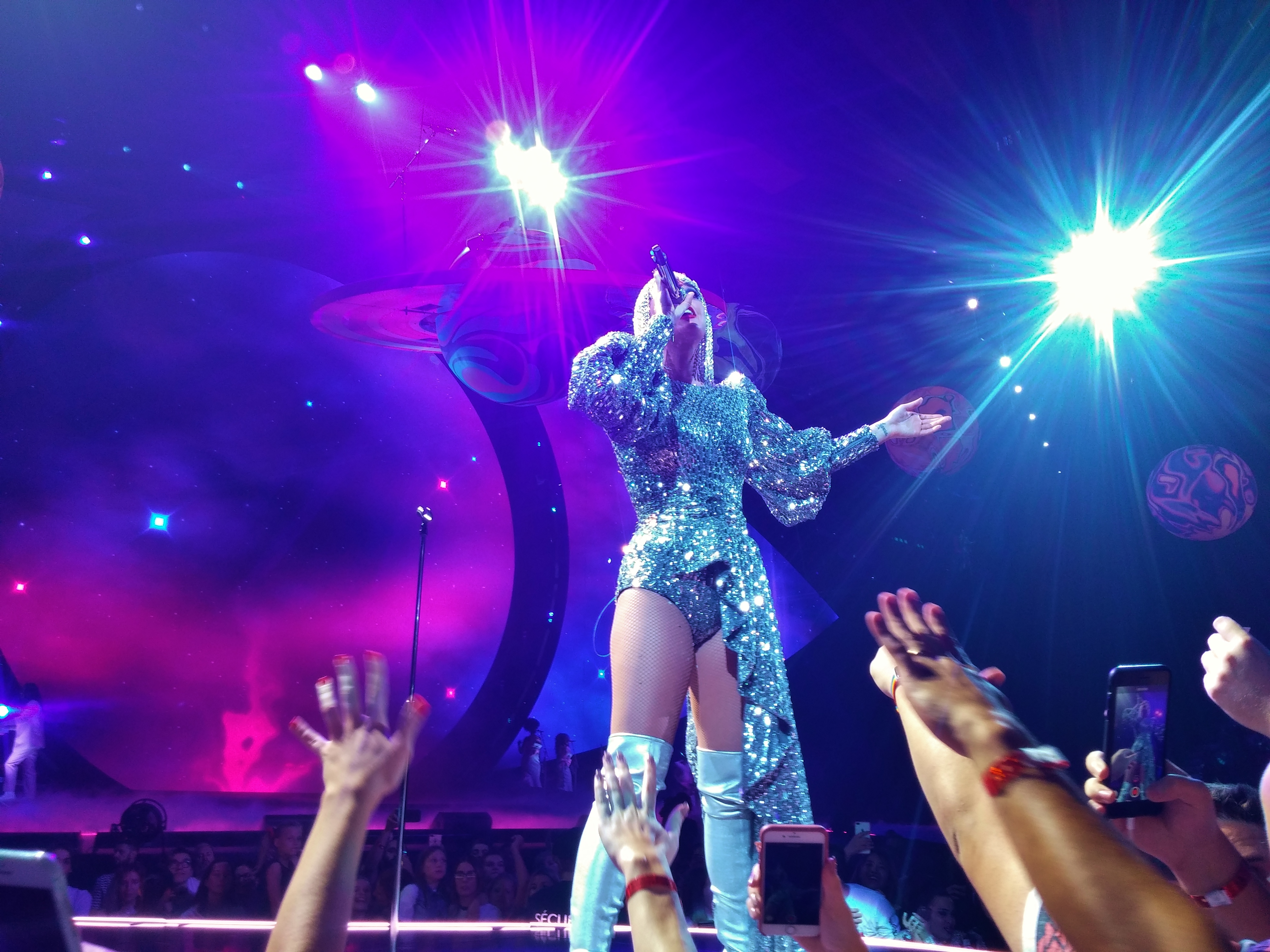 Katy Perry, Witness Tour, Bell Center, Montréal, 19 September 2017 (16)